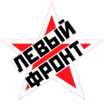 Left Front